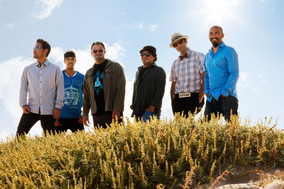 Ozomatli